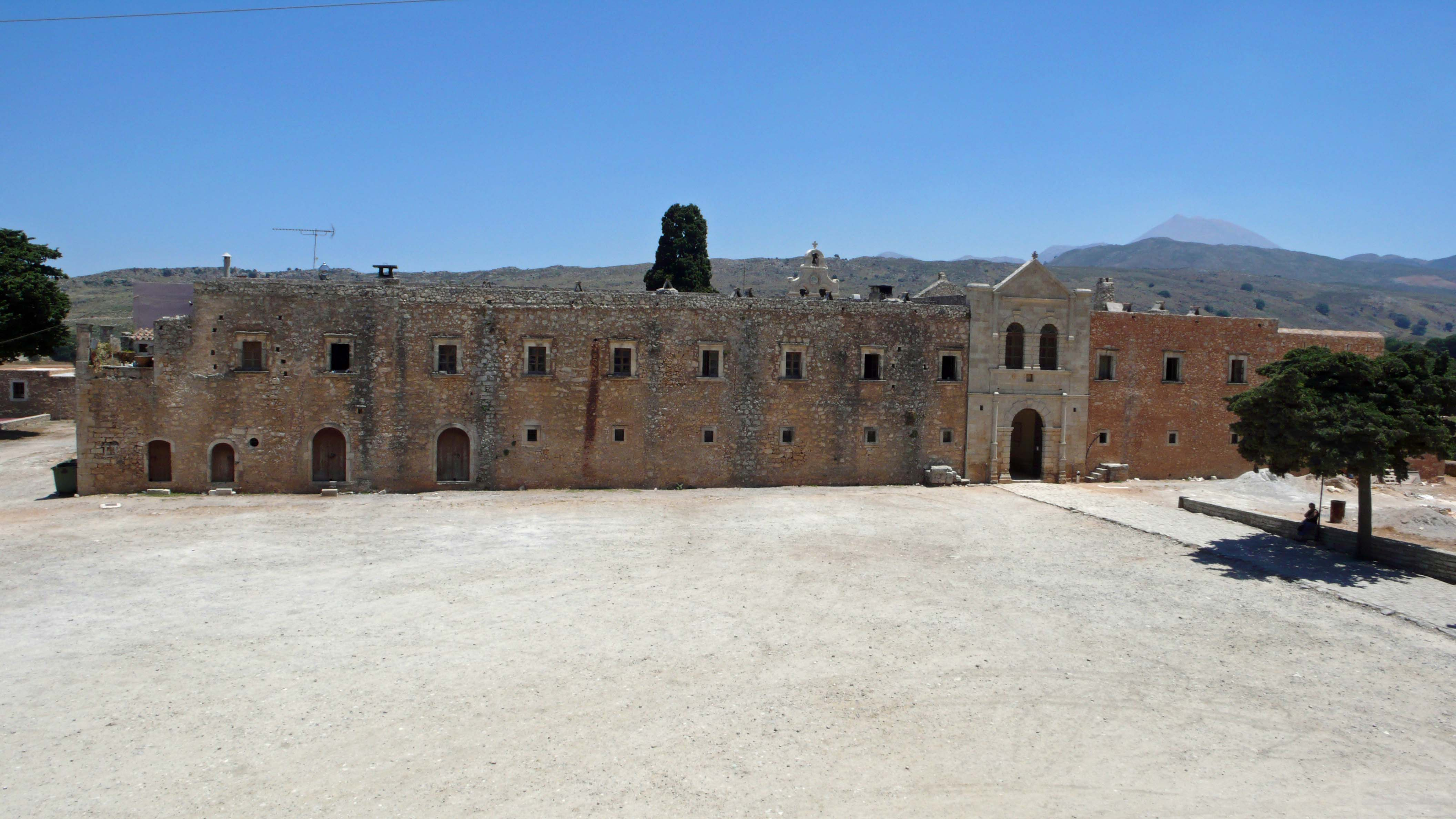 Enclosure of the Arkadi Monastery, Crete